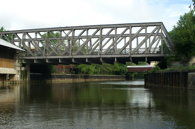 Midland Bridge Road Bridge, River Avon, Bath. Carrying Midland Bridge Road between Kingsmead and Westmoreland.